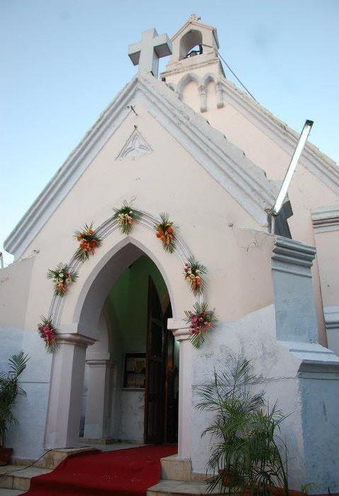 A front view of the church located at Hisar (city)